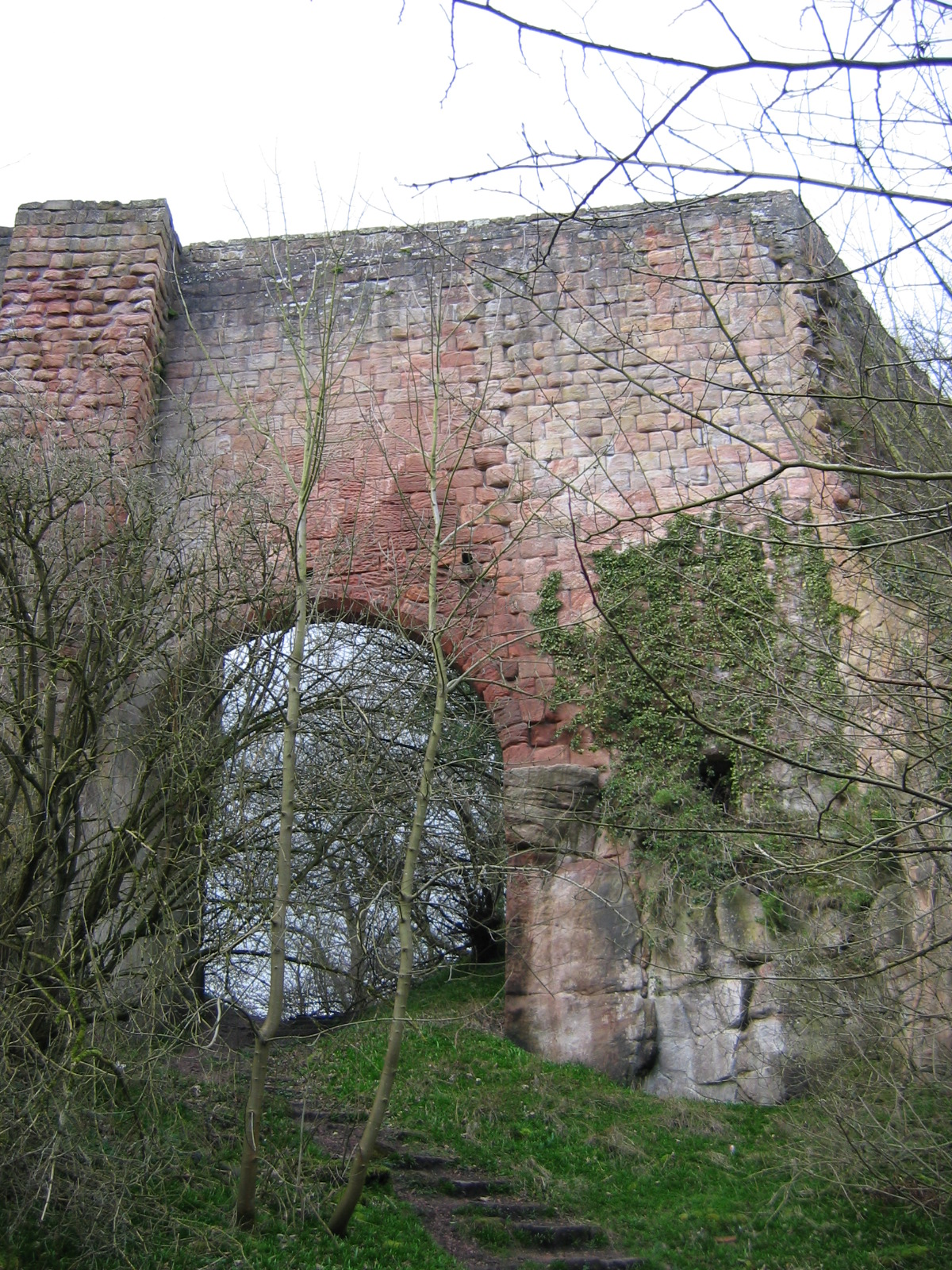 Bridge which accesses Roslin Castle, near Edinburgh, Scotland.